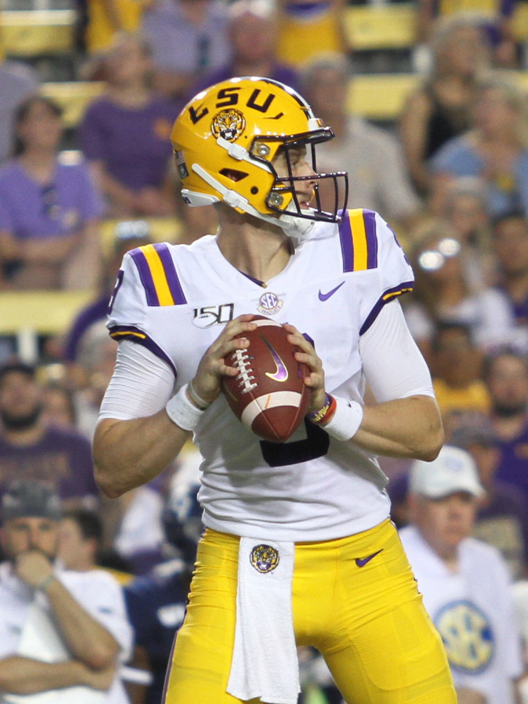 LSU Tigers quarterback Joe Burrow, #9, LSU Tigers vs Georgia Southern Eagles, August 31, 2019, Tiger Stadium, Baton Rouge, Louisiana, Tammy Anthony Baker, Photographer @tabinla @tmabaker @Joe_Burrow10